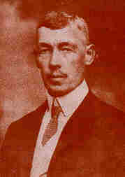 portrait of Sir William Willcocks